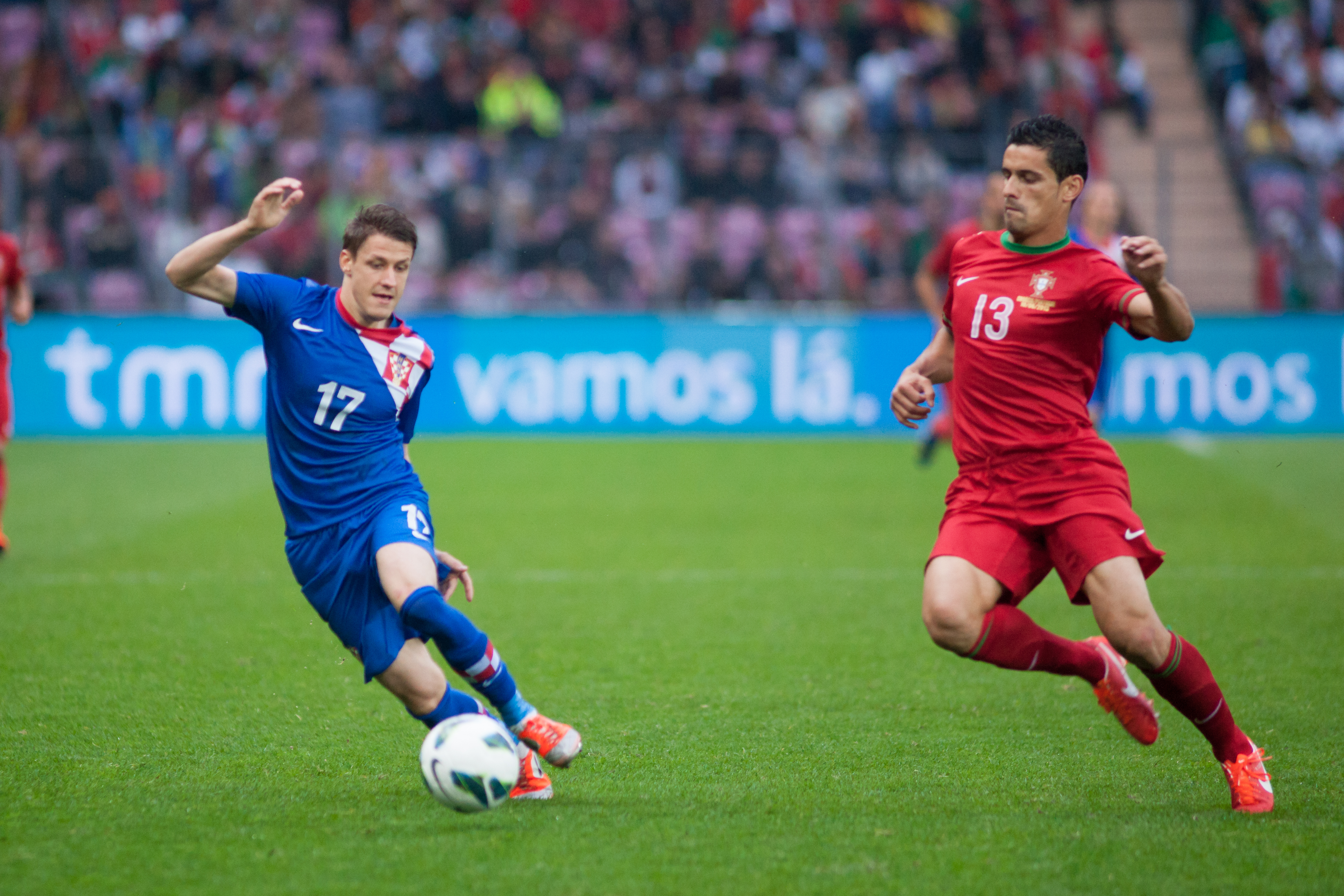 Croatia vs. Portugal, 10th June 2013